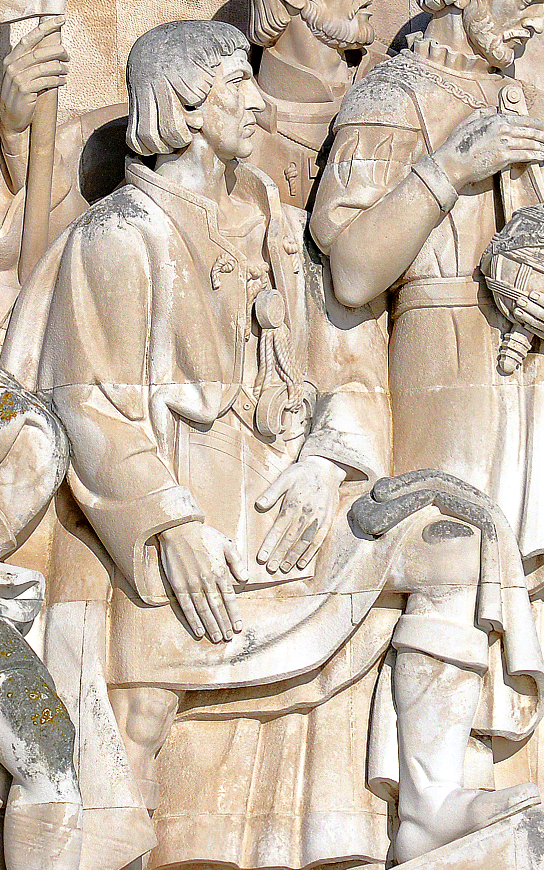 Effigy of Jácome de Maiorca, Catalan cartographer, in the Padrão dos Descobrimentos (Monument to the Discoveries), in Lisbon, Portugal.